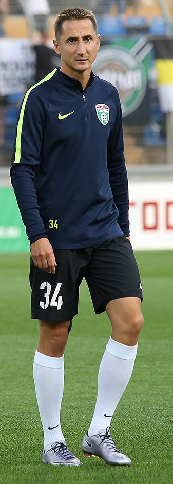 Vladimir Bystrov with FC Tosno before the game against FC SKA-Khabarovsk.